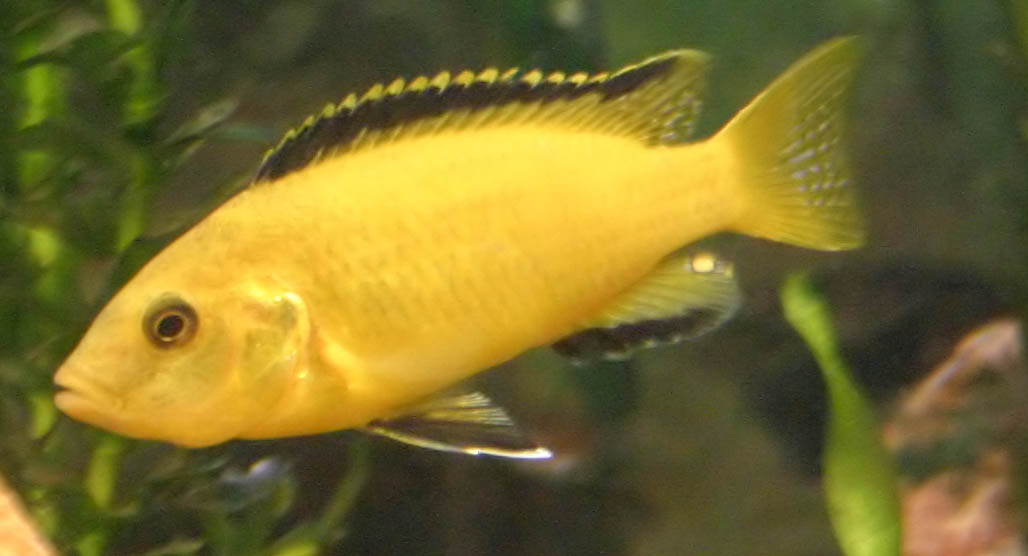 Electric Yellow Lab Cichlid. IMG 1166 filtered.jpg